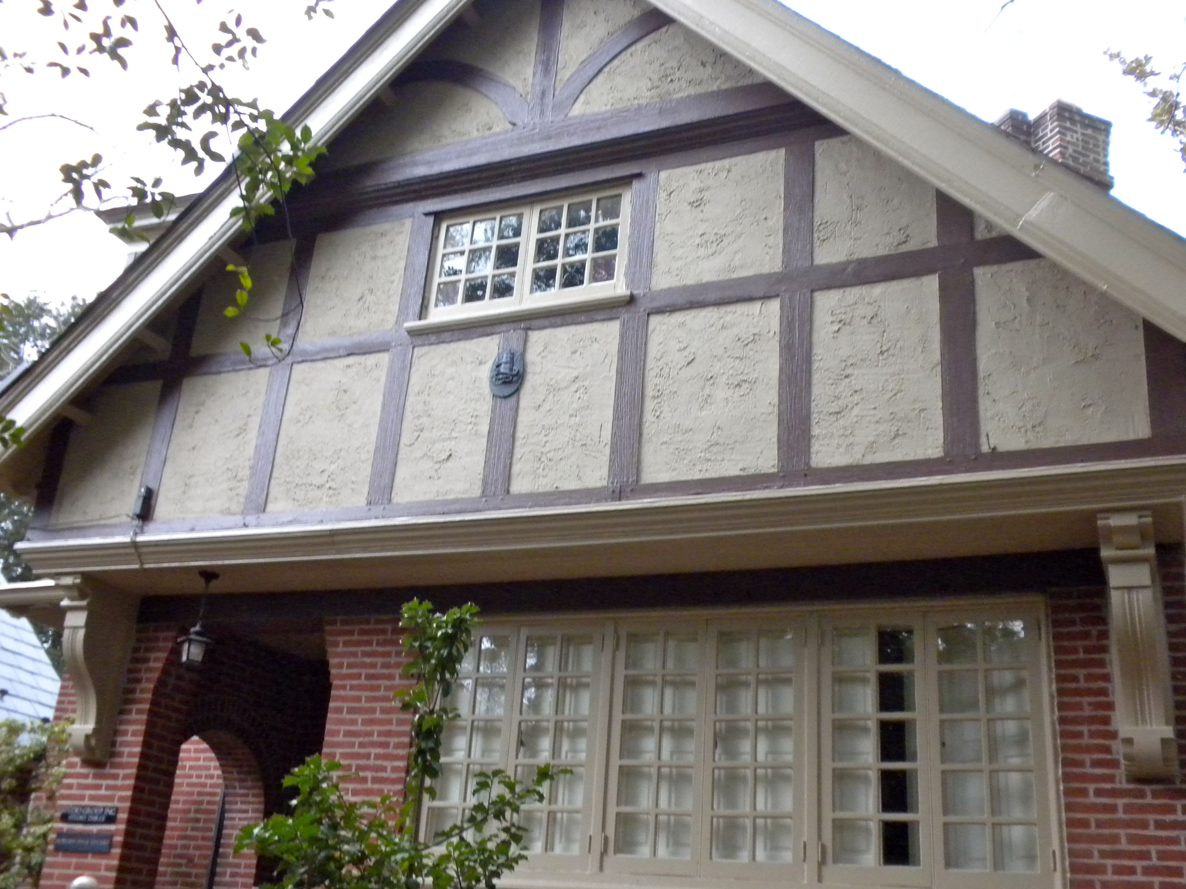 Howard Pyle Studios, on the NRHP since March 8, 1978, at 1305 and 1307 N. Franklin St., Wilmington, Delaware.